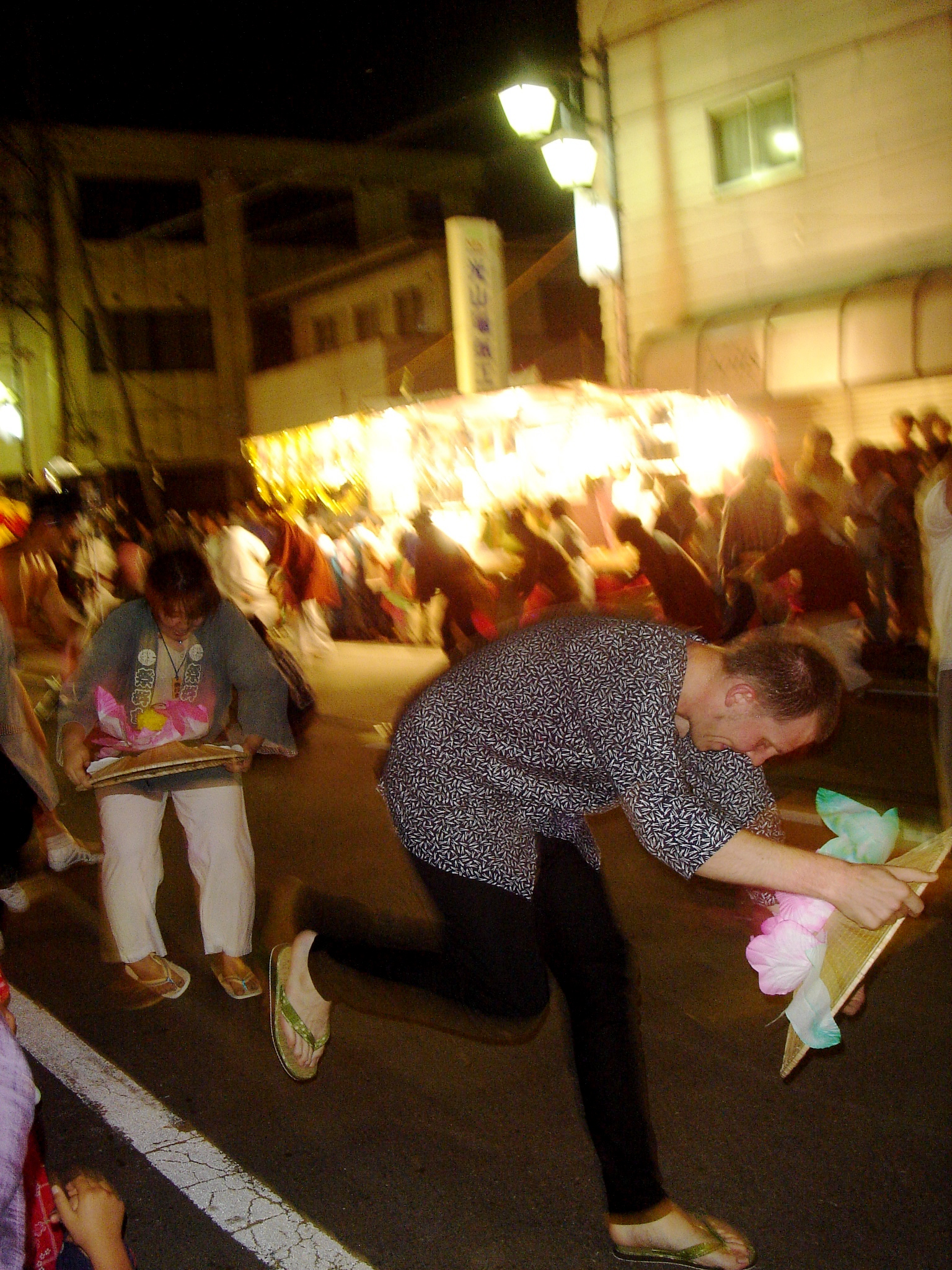 People dancing the Yagibushi festival dance at the Isemachi matsuri in Nakanojo, Japan on Sept 1st, 2007.